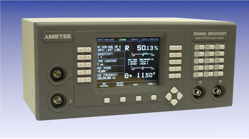 SIGNAL RECOVERY Model 7270 DSP Lock-in Amplifier